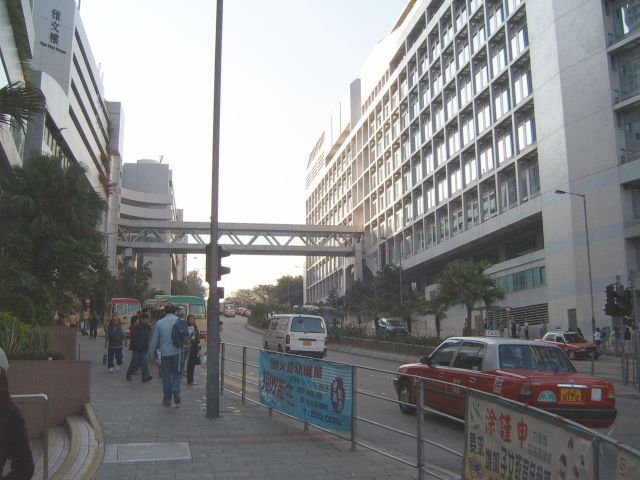 Ho Man Tin. Photo taken by myself (User:Sl) on November 2005. 何文田，左面為何文田廣場，右面為香港房屋委員會總部。